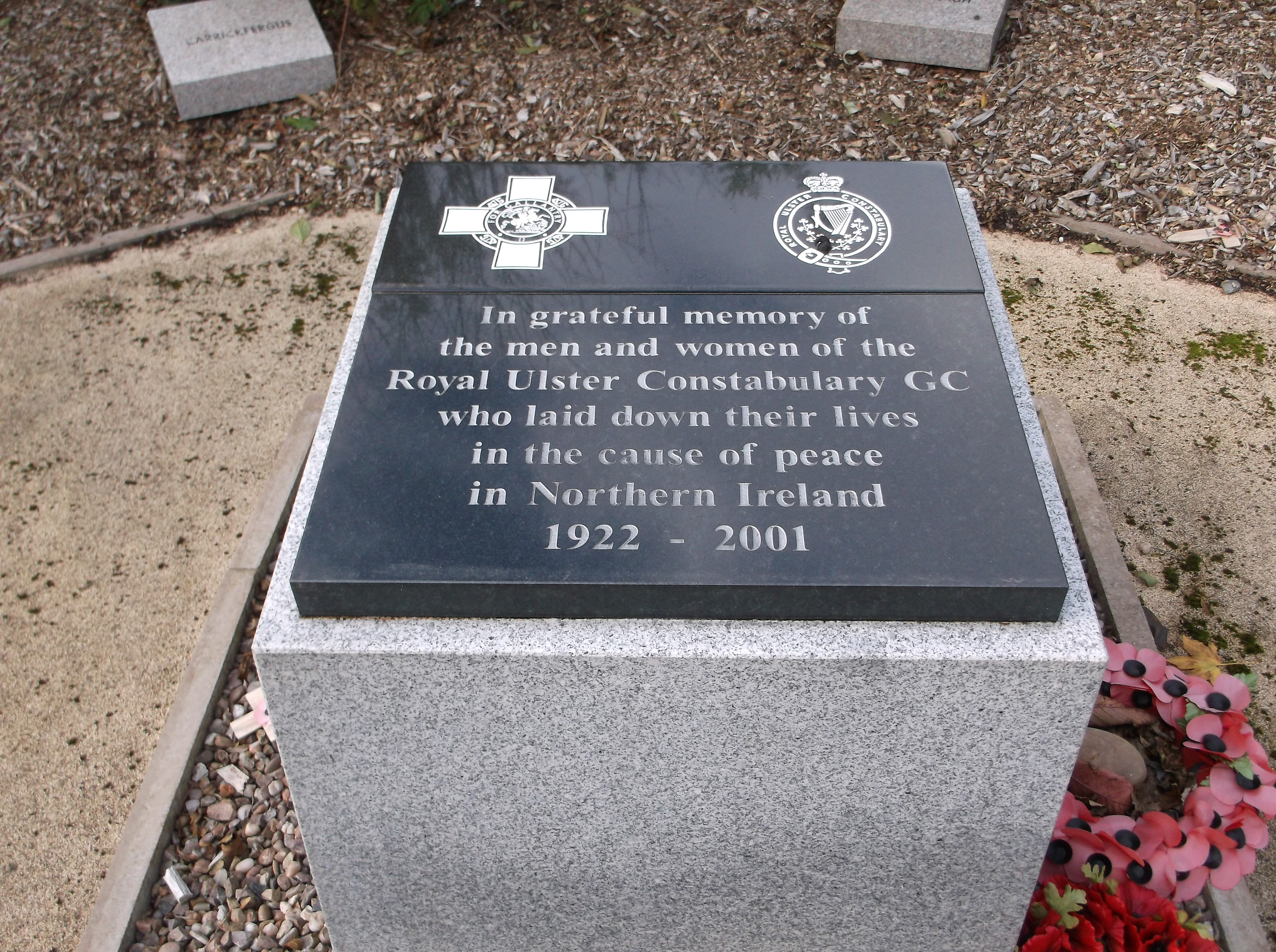 Royal Ulster Constabulary memorial, National Memorial Arboretum